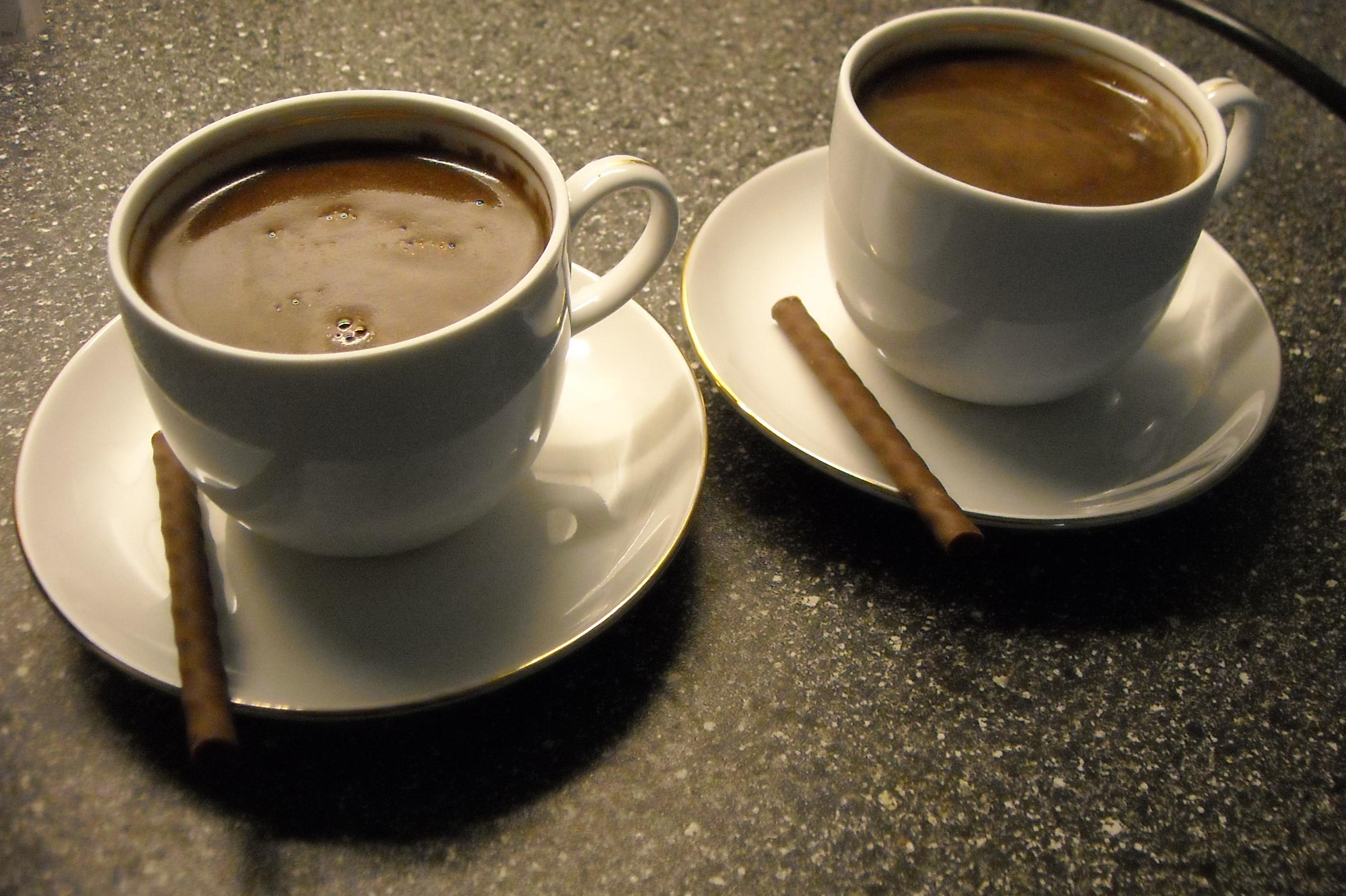 Turkish coffee